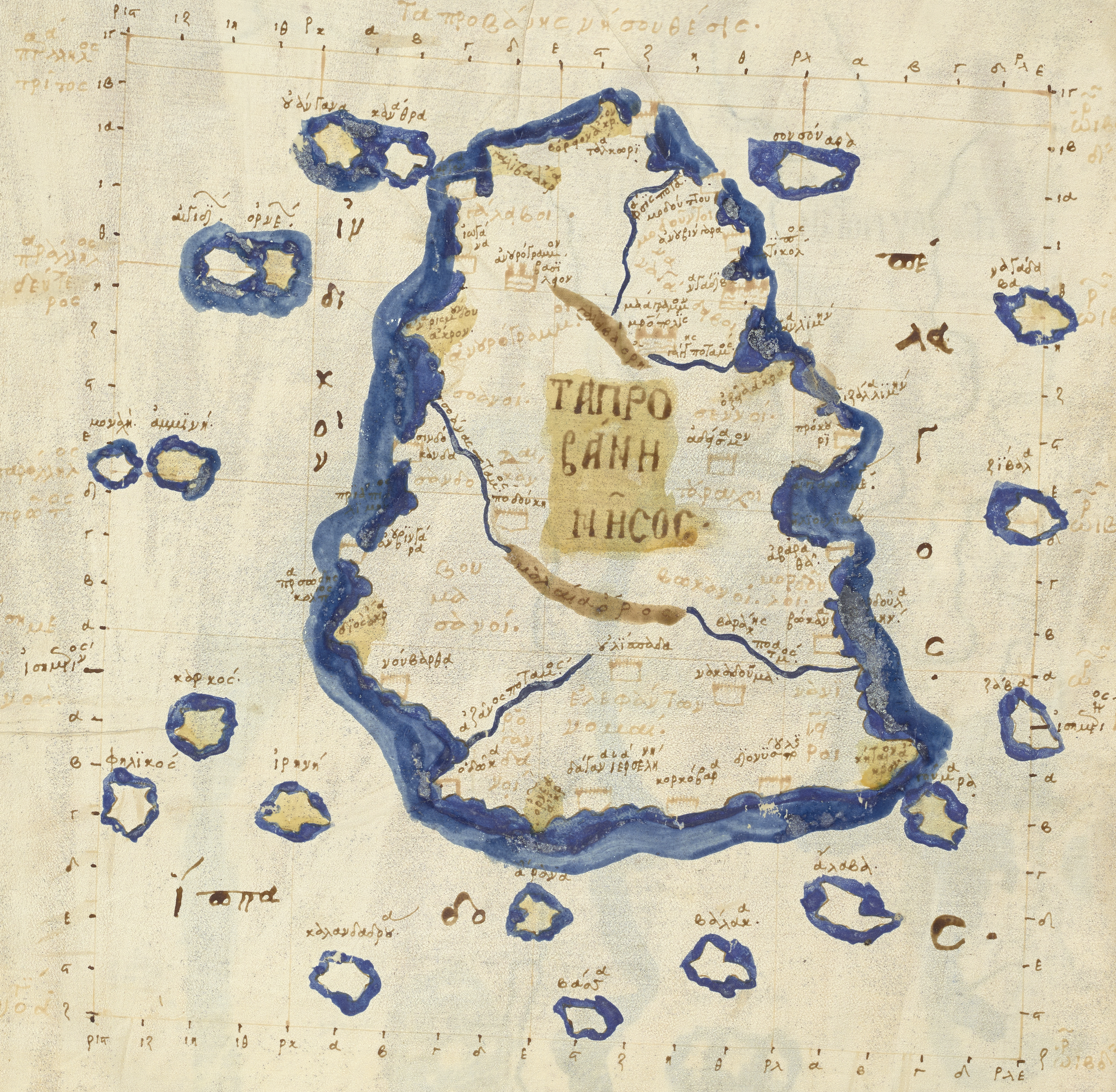 The Twelfth Asian Map from a Greek manuscript edition of Ptolemy's Geography, depicting TaprobaneἈρχαία ἑλληνικὴ: Ταπροβάνη Νῆσος